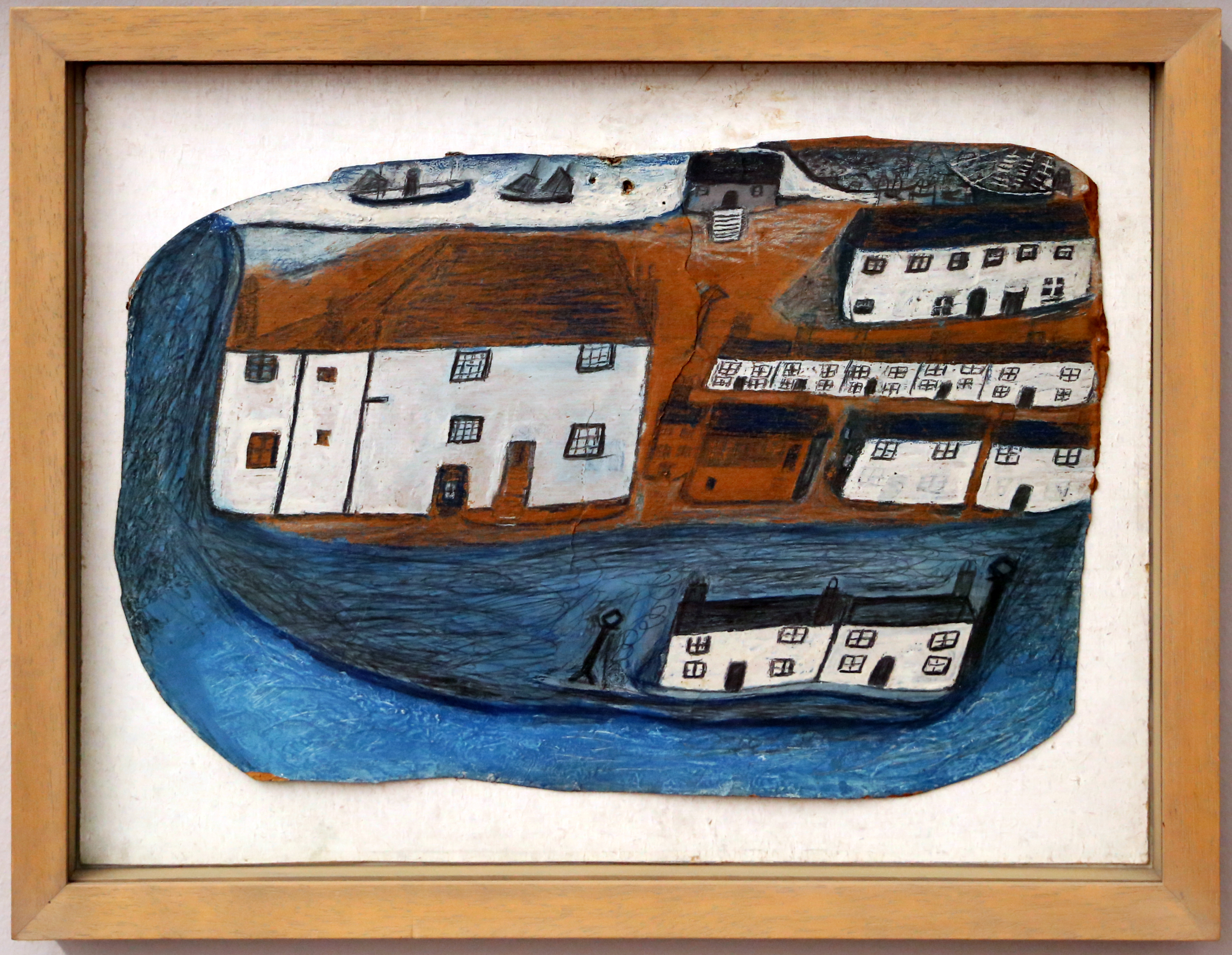 Paintings in Tate Britain